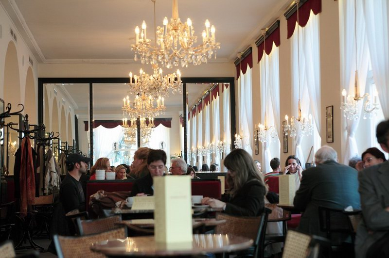 Café Dommayer, Vienna, Austria